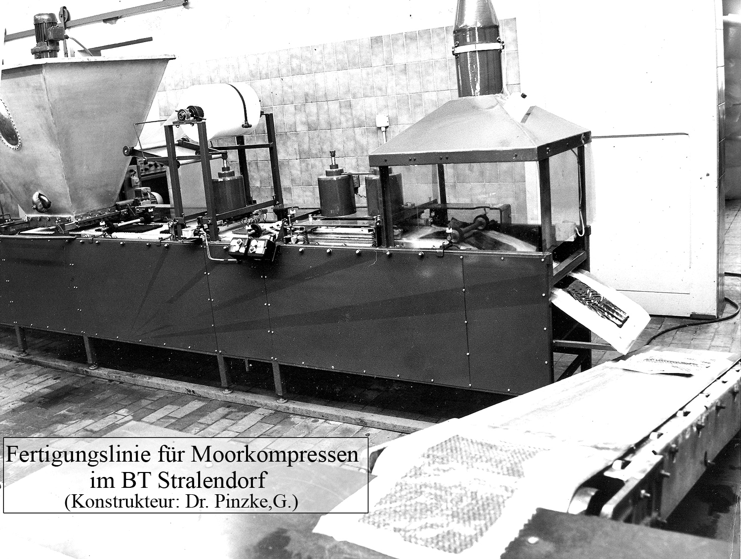 Production line for the manufacture of compressed peat, Stralendorf, northern Germany, 1988